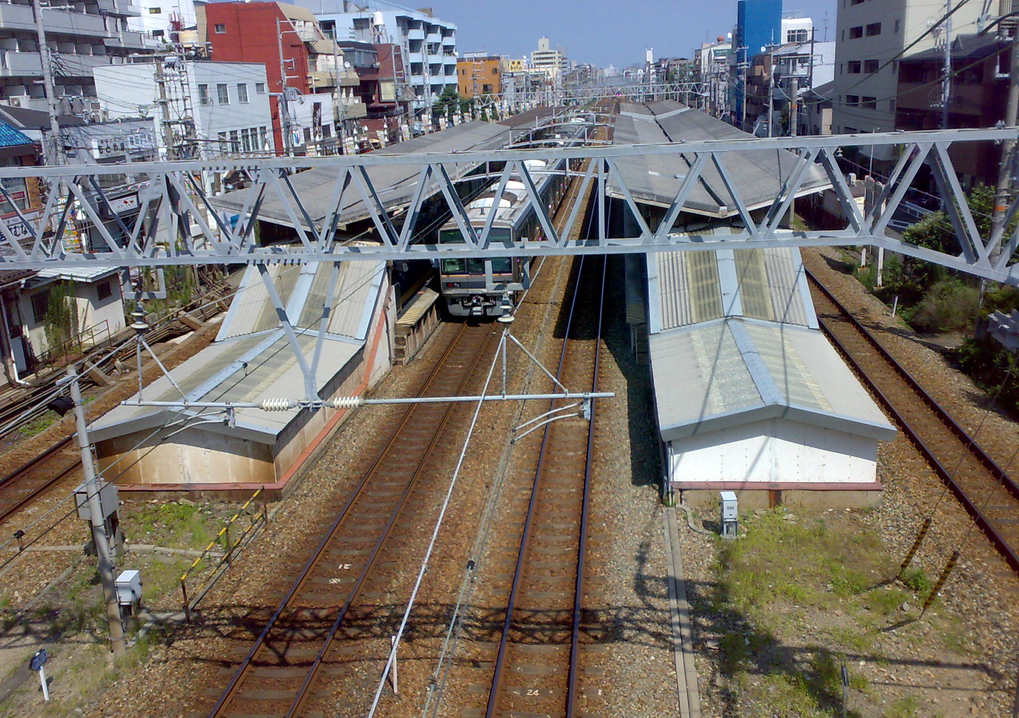 View from top to Settsu-Motoyama Station